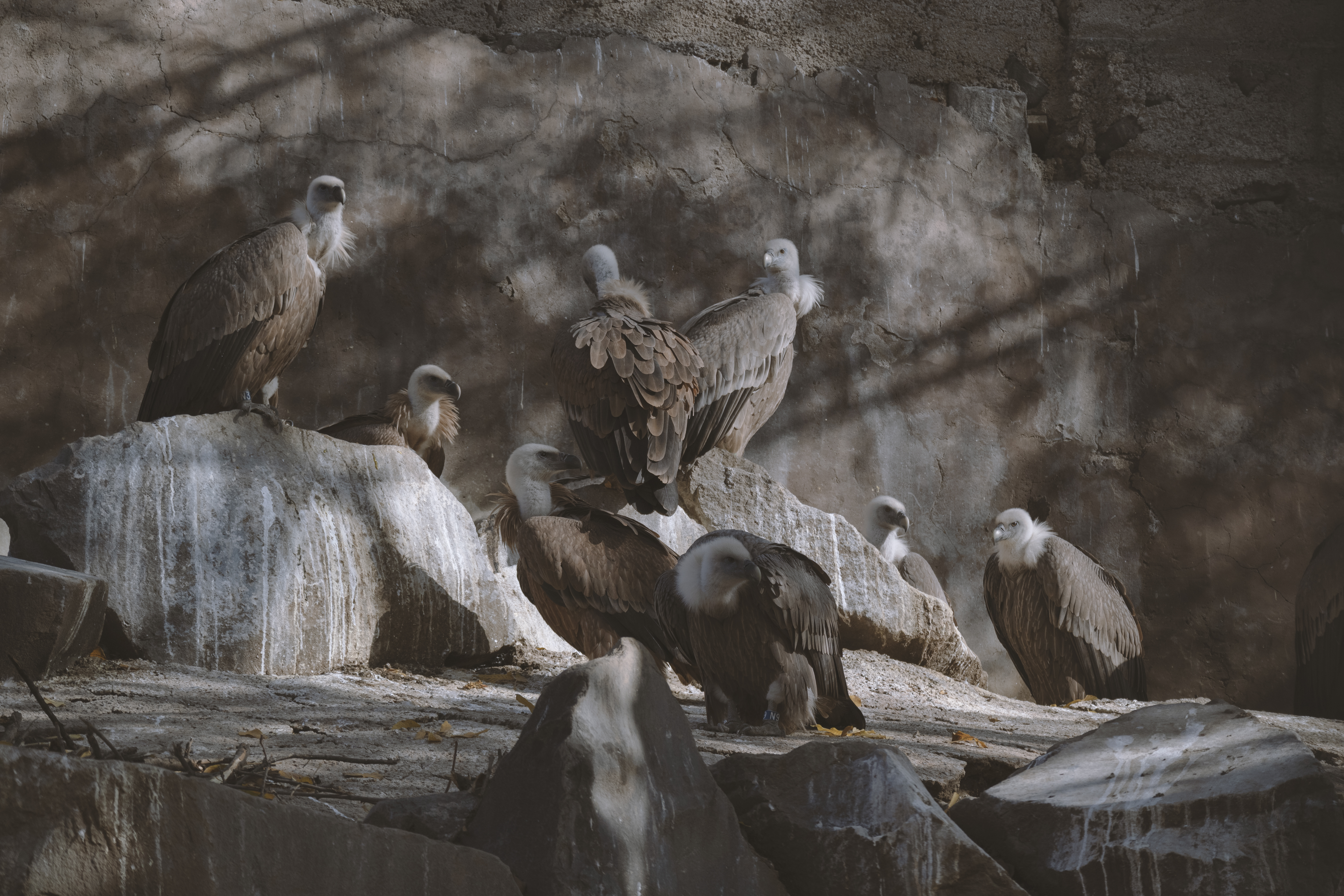 The Yerevan Zoo, also known as the Zoological Garden of Yerevan is a 35-hectare zoo established in 1940 in Yerevan, Armenia.